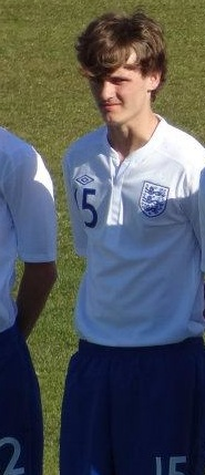 john swift england